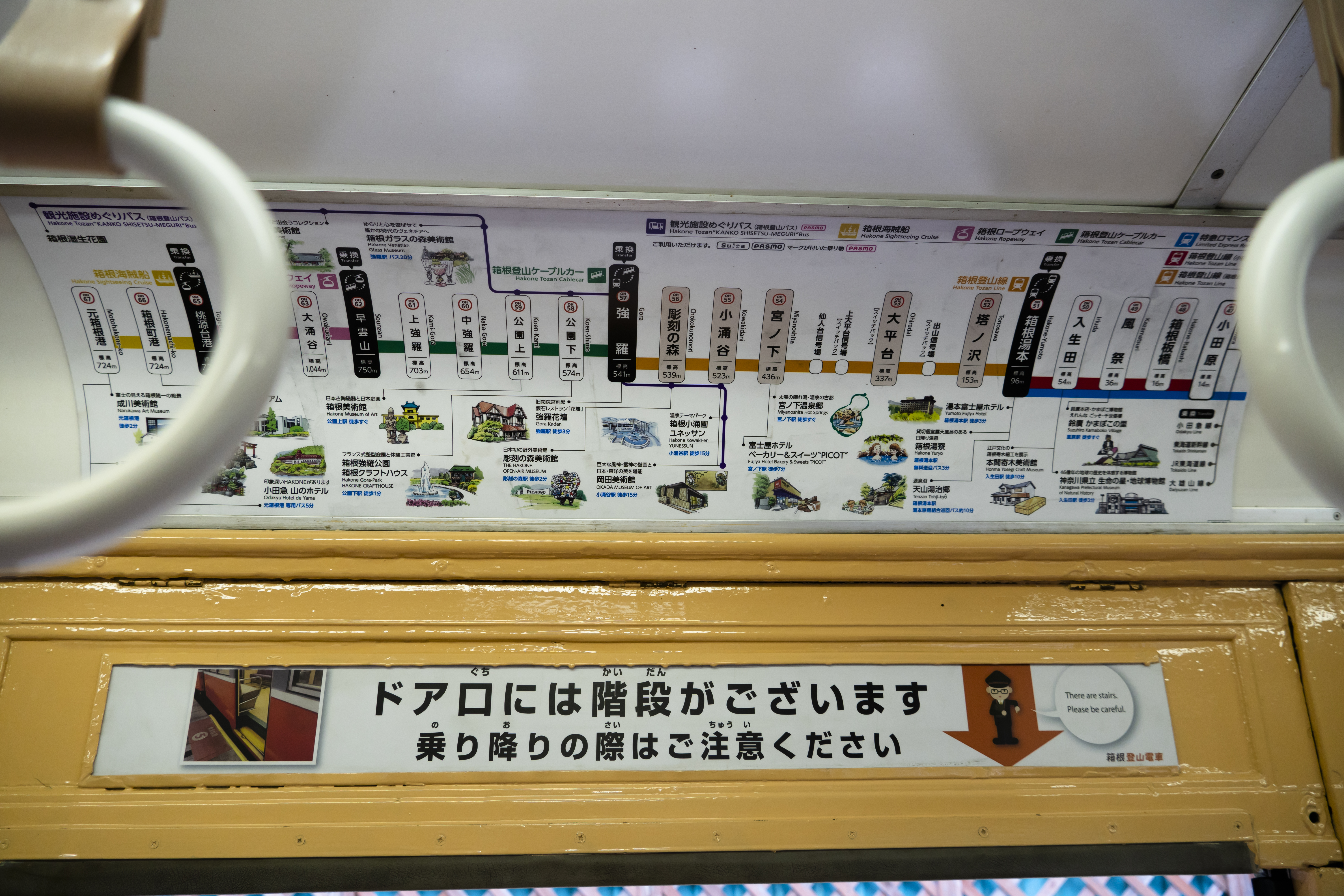 Route information onboard a Hakone Tozan Railway Type Moha 1 Electric Train